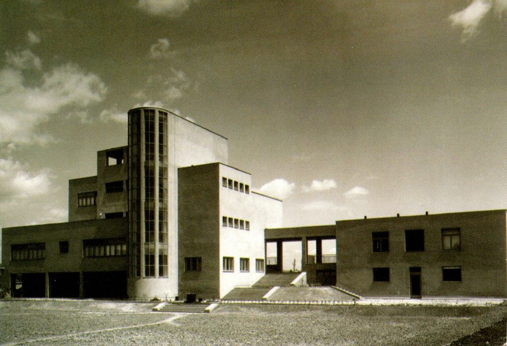 Elementary School(1930-1931) by Ivan Zemljak in Zagreb, Croatia Selska cesta 95, 10110, Zagreb, Croatia Today the building is owned by the August Šenoa Elementary School.